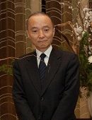 Stephen Harper, Prime Minister, visited the Embassy of Japan in Otawa, to sign a book of condolence for the victims of the recent tsunami and earthquakes that have impacted the country on March 23, 2011. Harper met with Kaoru Ishikawa, Ambassador to Canada. (c.f. "東日本大震災の被災者の方々に対するお見舞いの記帳終了のお知らせと御礼", 在カナダ日本国大使館: 東日本大震災の被災者の方々に対するお見舞いの記帳終了のお知らせと御礼, Embassy of Japan in Canada.)